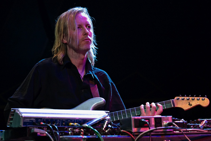 Eivind Aarset at moers festival 2006 own photo 2006 June 04 photo: nomo/michael hoefner